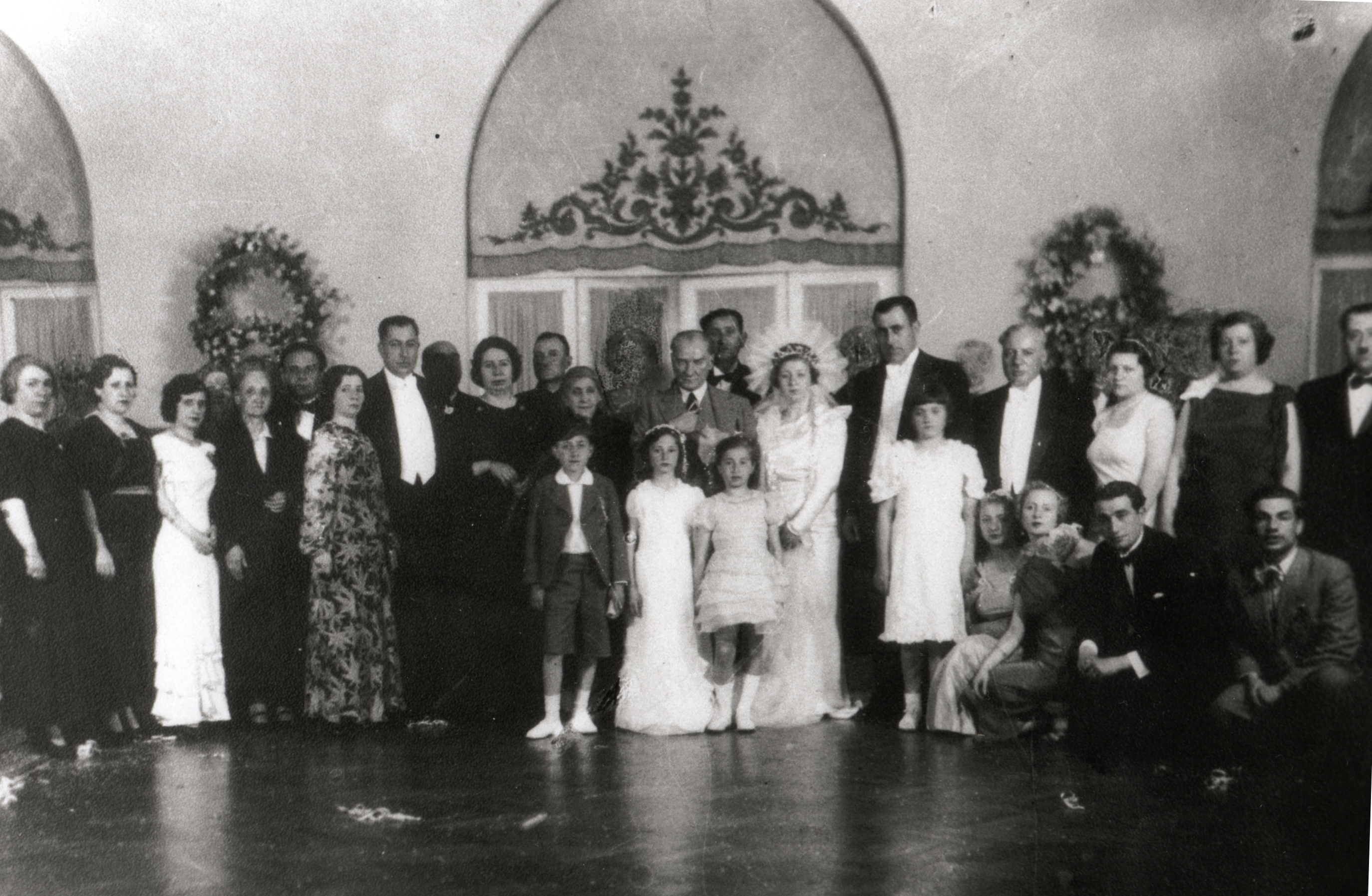 Mustafa Kemal at the wedding of the daugher of Halit Mengi